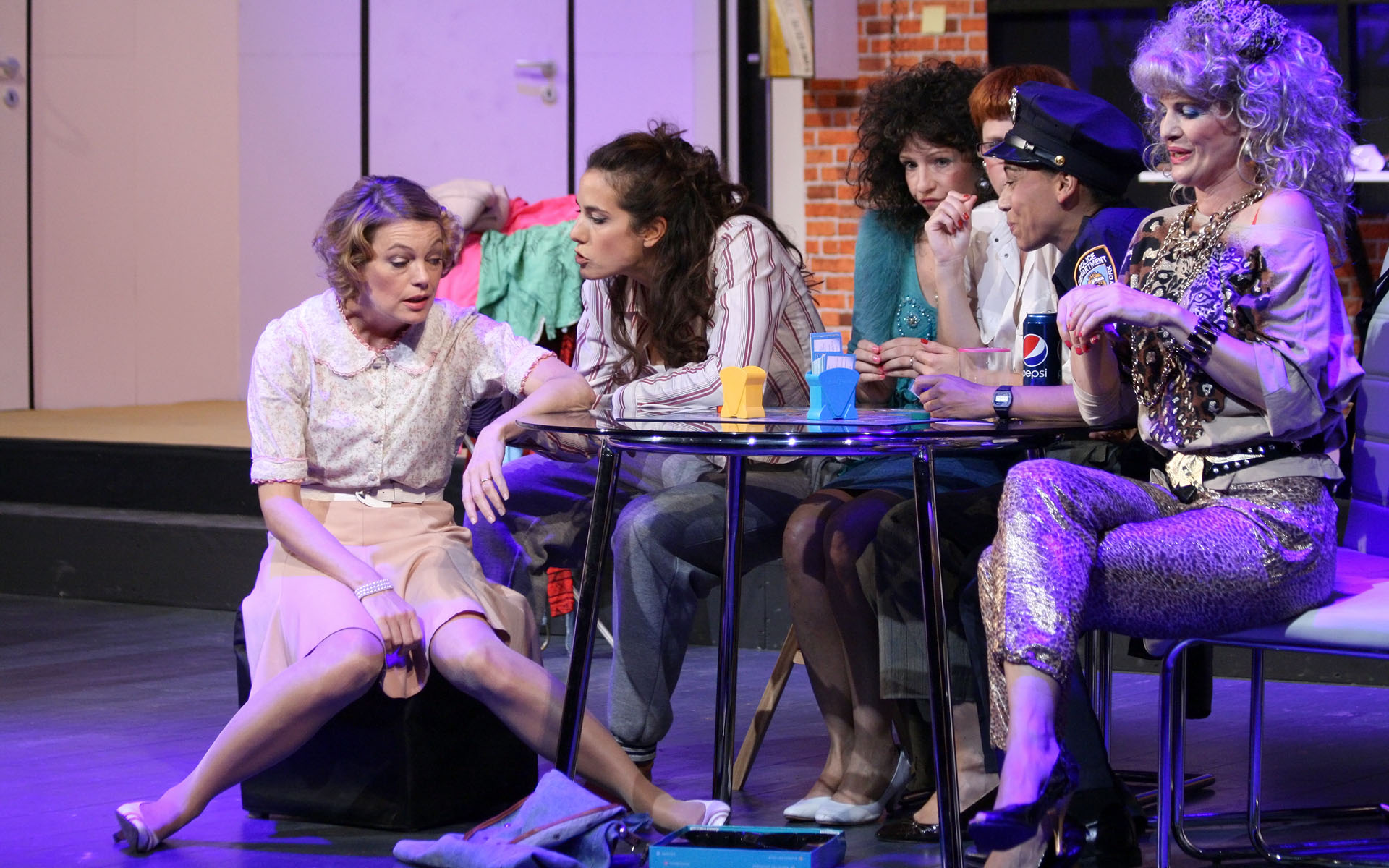 Elke Winkens, Nina Hartmann, Martina Poel, Elli Colditz, Rachelle Nkou and Doris Hindinger in Ein ungleiches Paar, an adaption of Neil Simons play The Odd Couple. Summer theater festival at the city theater of Berndorf (Lower Austria).